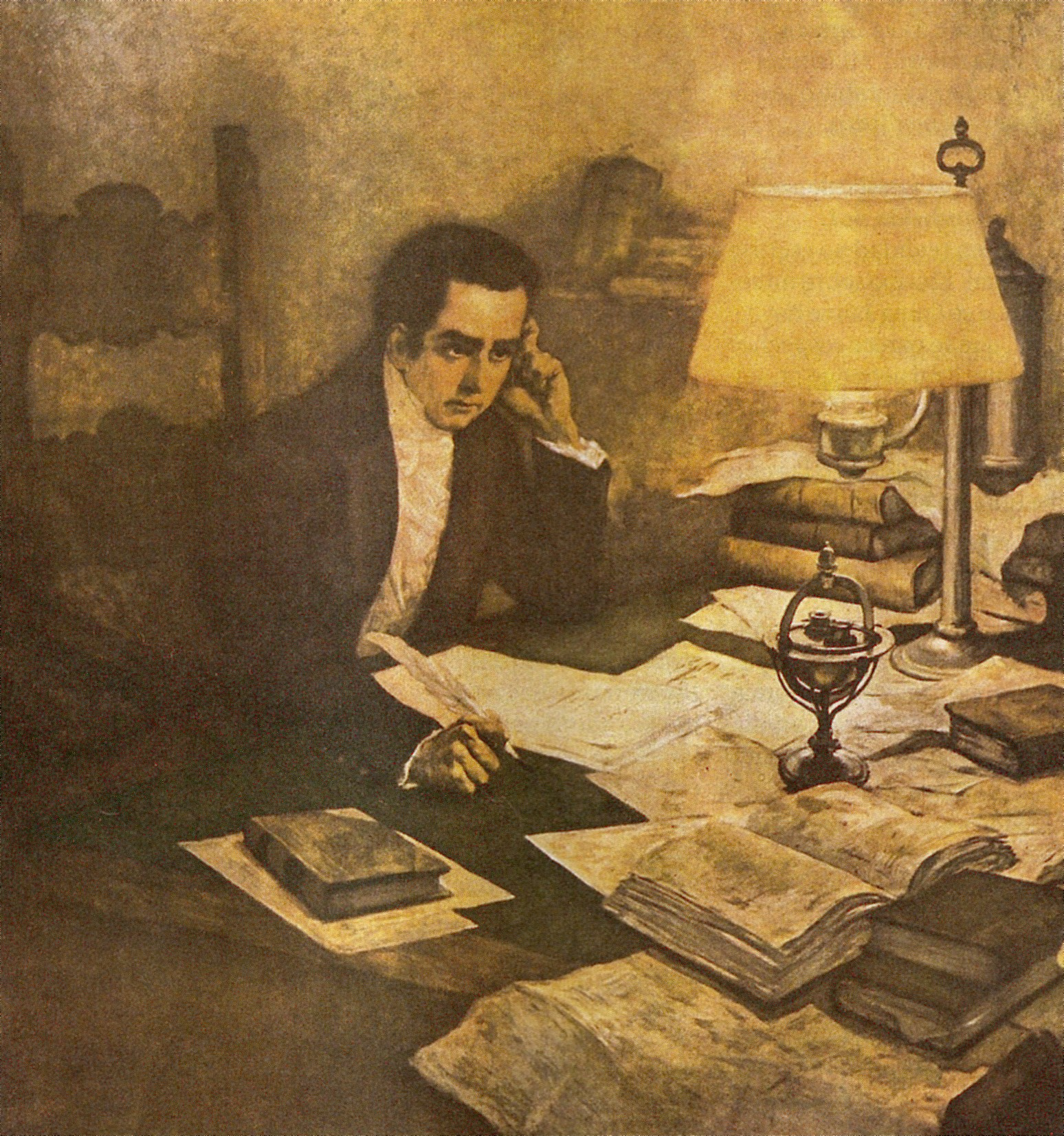 Mariano Moreno, considered the ideologue of the Independence of Argentina. He was a lawyer, jornalist and a representative of the United Provinces of Río de la Plata.